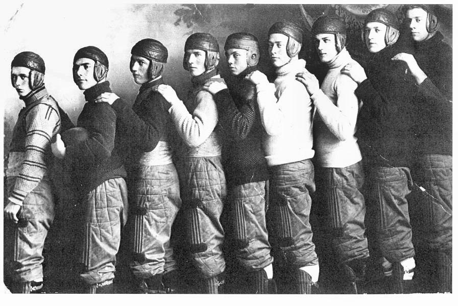 Unknown football team